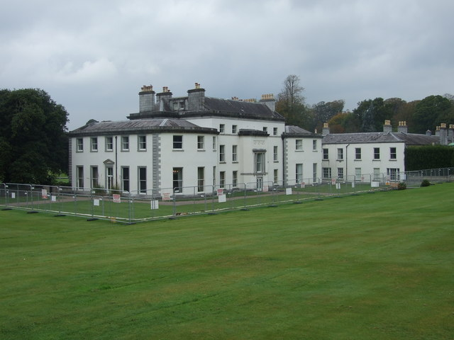 Fota House Fota House was formerly the home of the Earls of Barrymore, now in the hands of the Irish Heritage Trust.